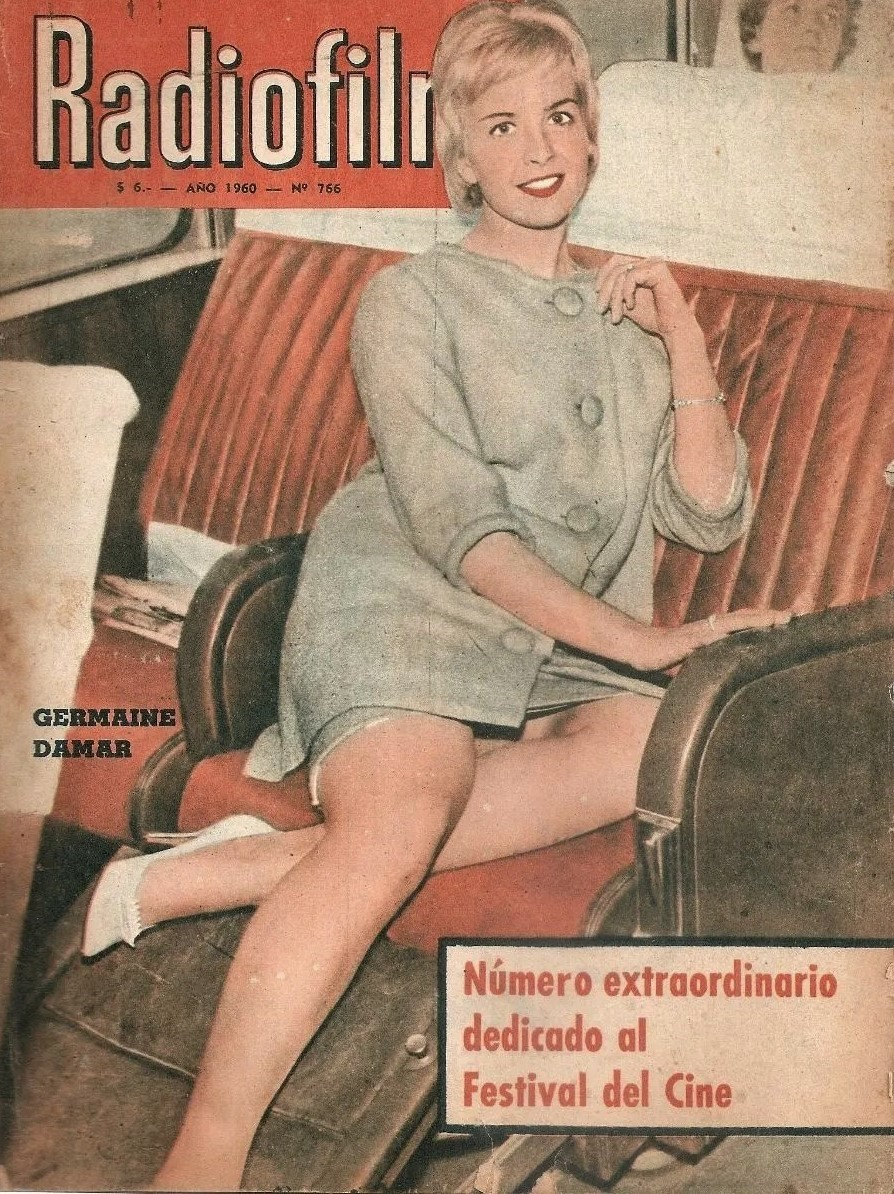 Germaine Damar on Radiofilm cover, Nº 766, 1960